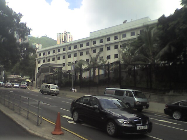 View from across Garden Road of the American Consulate in Central, Hong Kong.